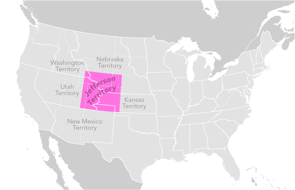 hypothetical map of Jefferson Territory extending west of the Continental Divide of the Americas.